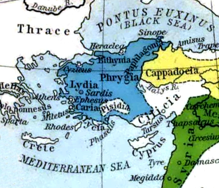 Lydian Empire 600 BCE